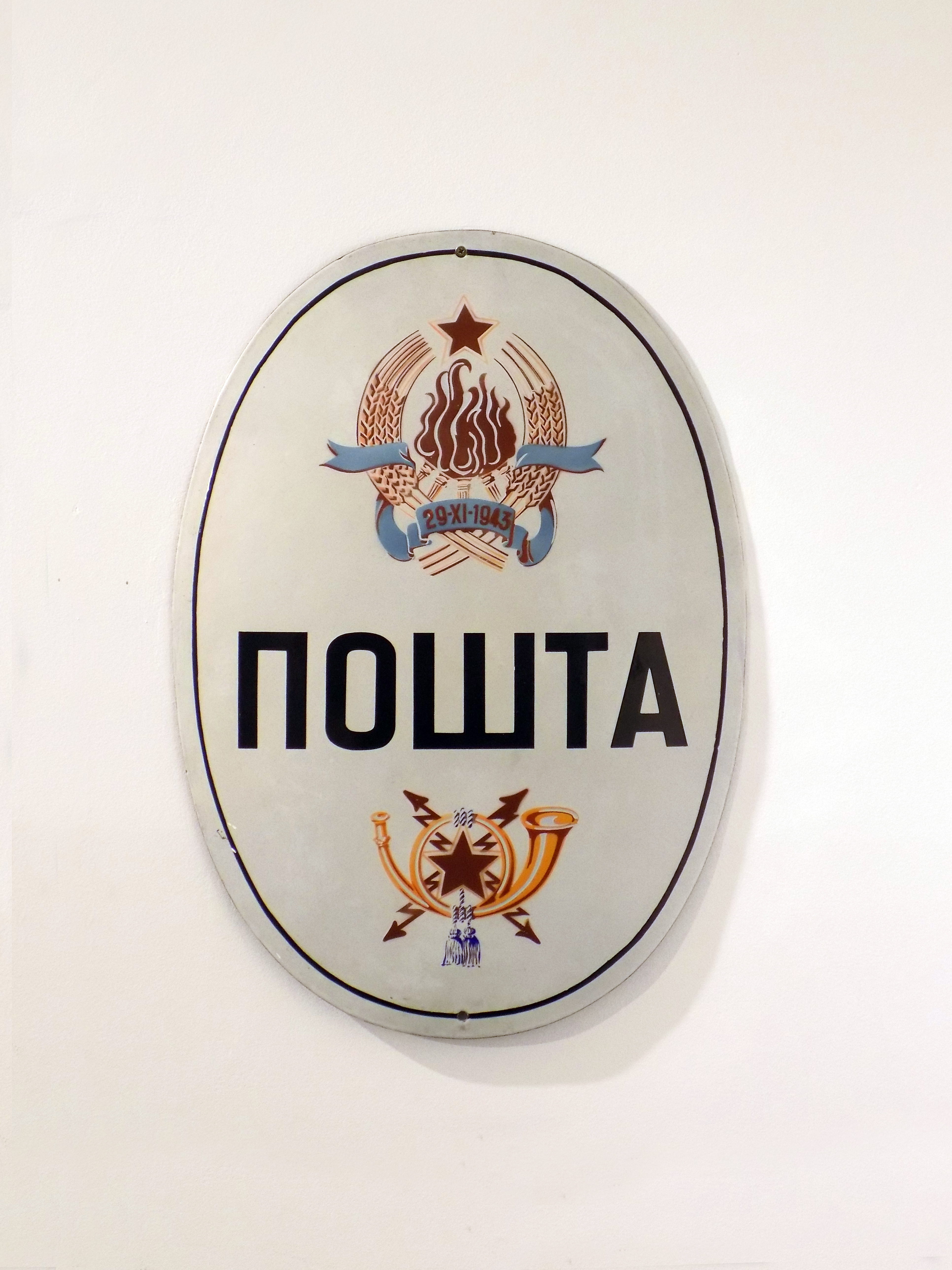 Postal name plate in SFRY